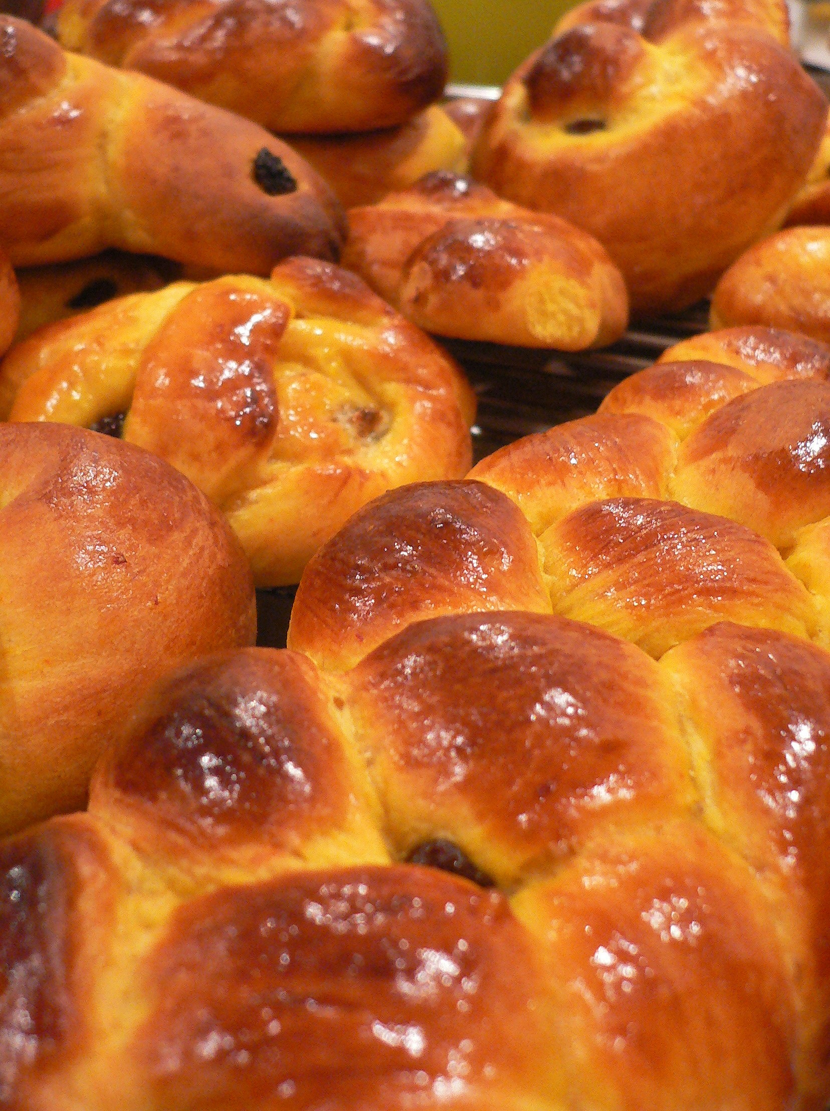 Saffron buns for Lucia (Saint Lucy's Day).